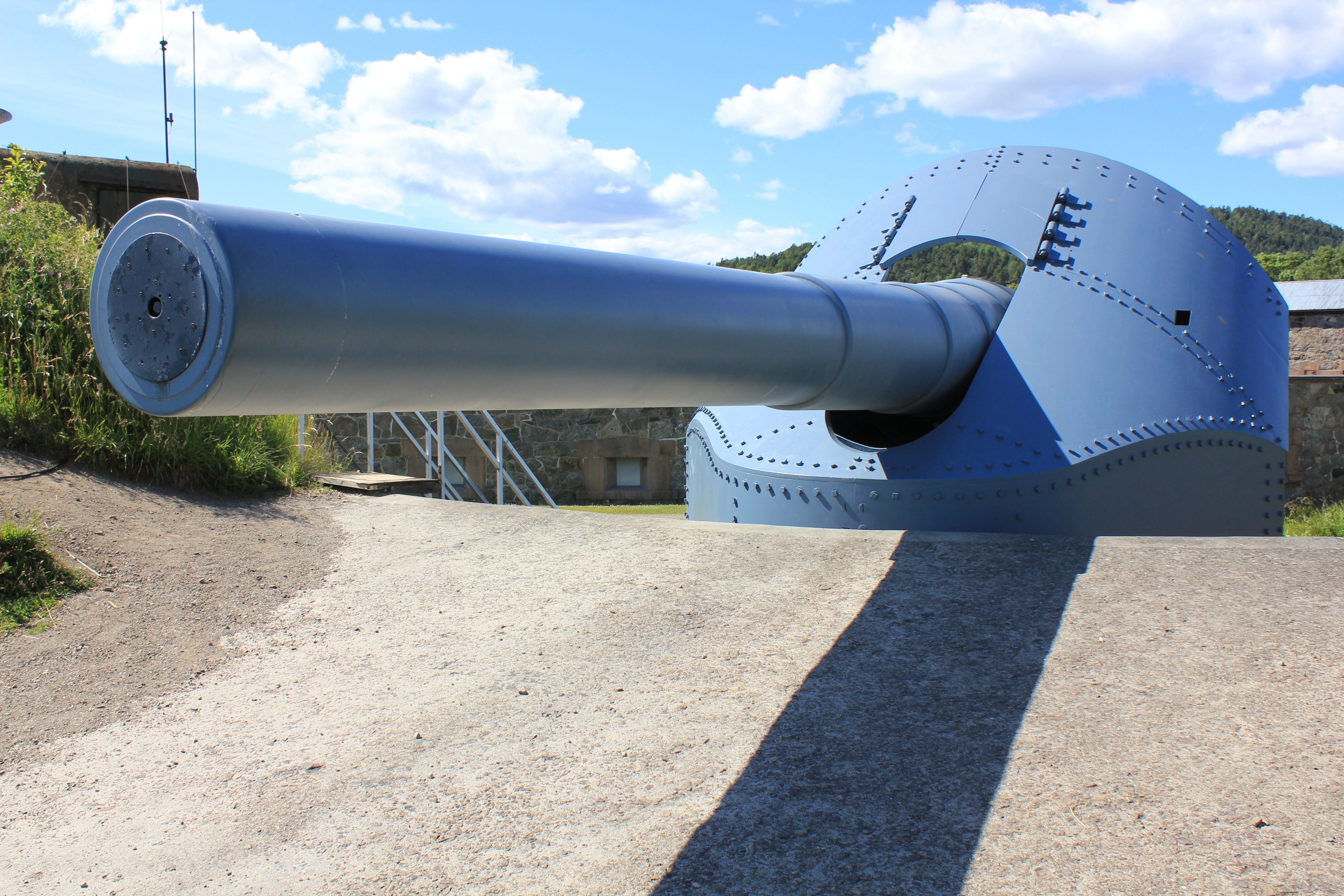 Canon at Oscarsborg Fortress by Drøbak, Norway.